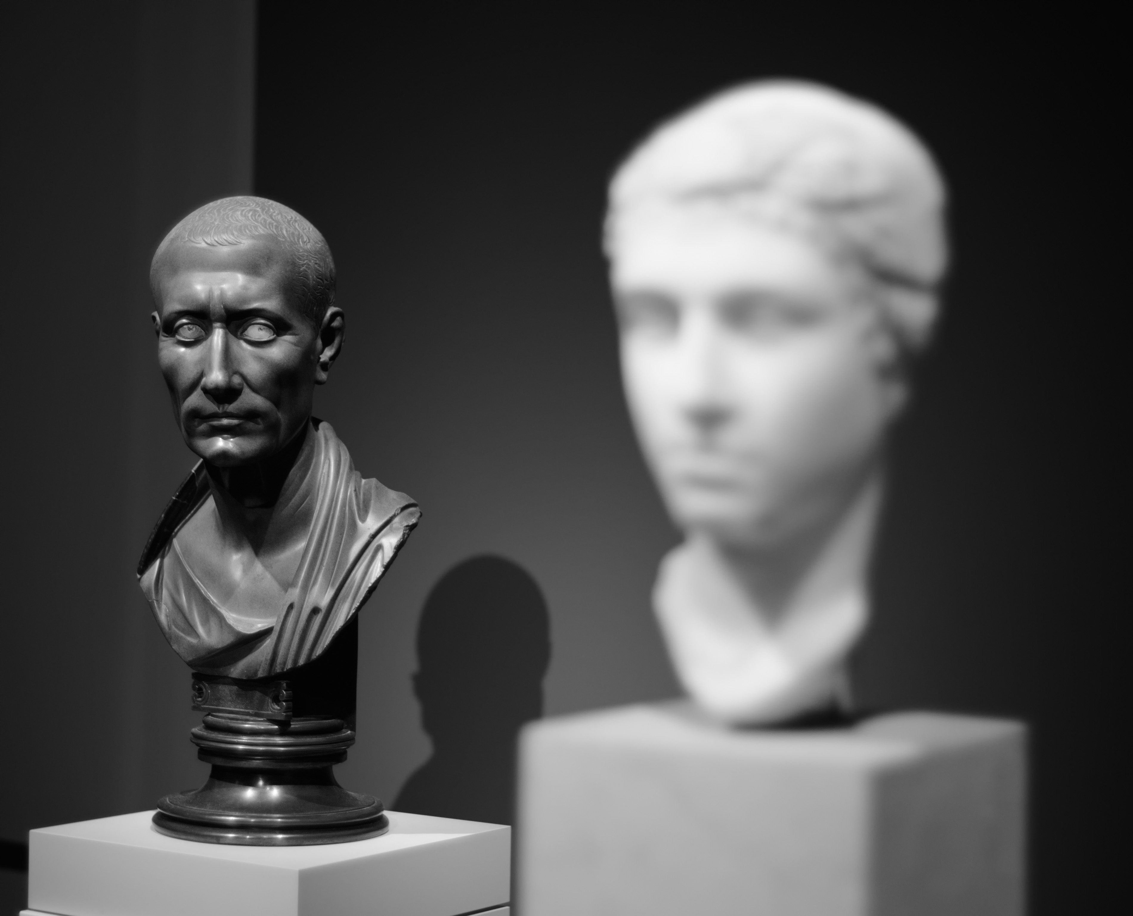 Caesar(1st century AC.) looking at Cleopatra VII